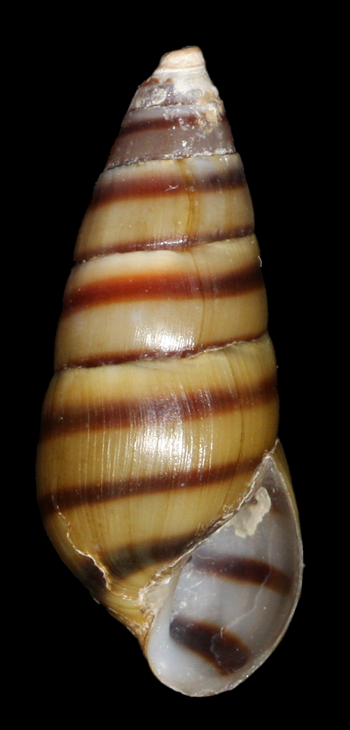 Lectotype of Elimia annettae (UMMZ 128908)